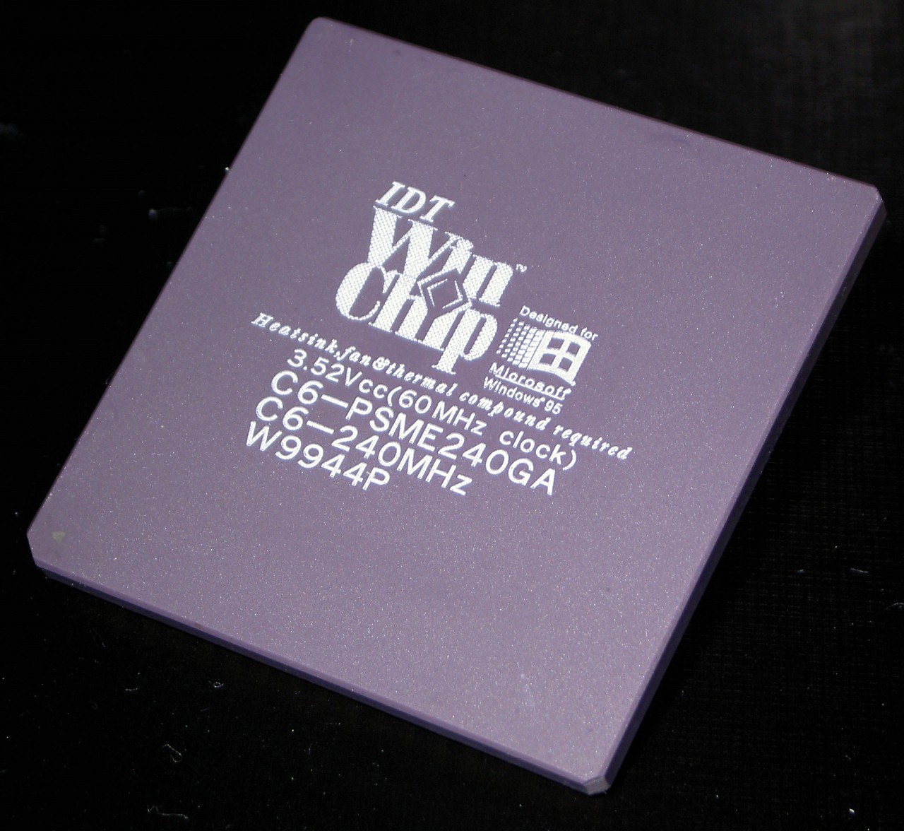 IDT WinChip C6 Processer 240MHz